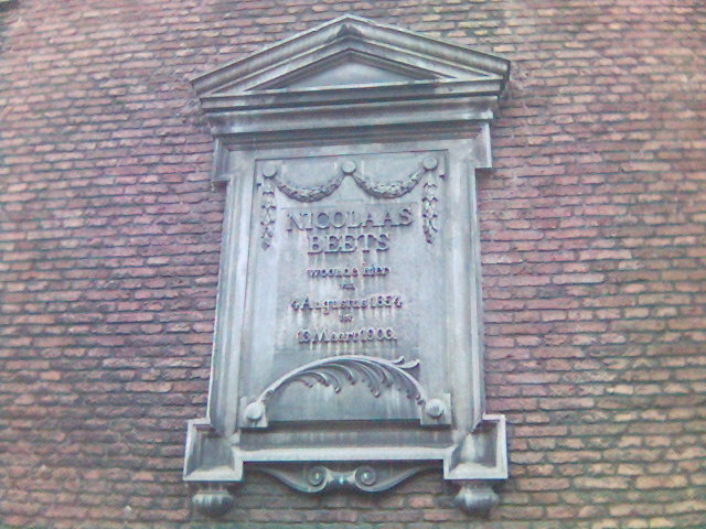 Memorial stone for Dutch writer Nicolaas Beets (Boothstraat 6, Utrecht).